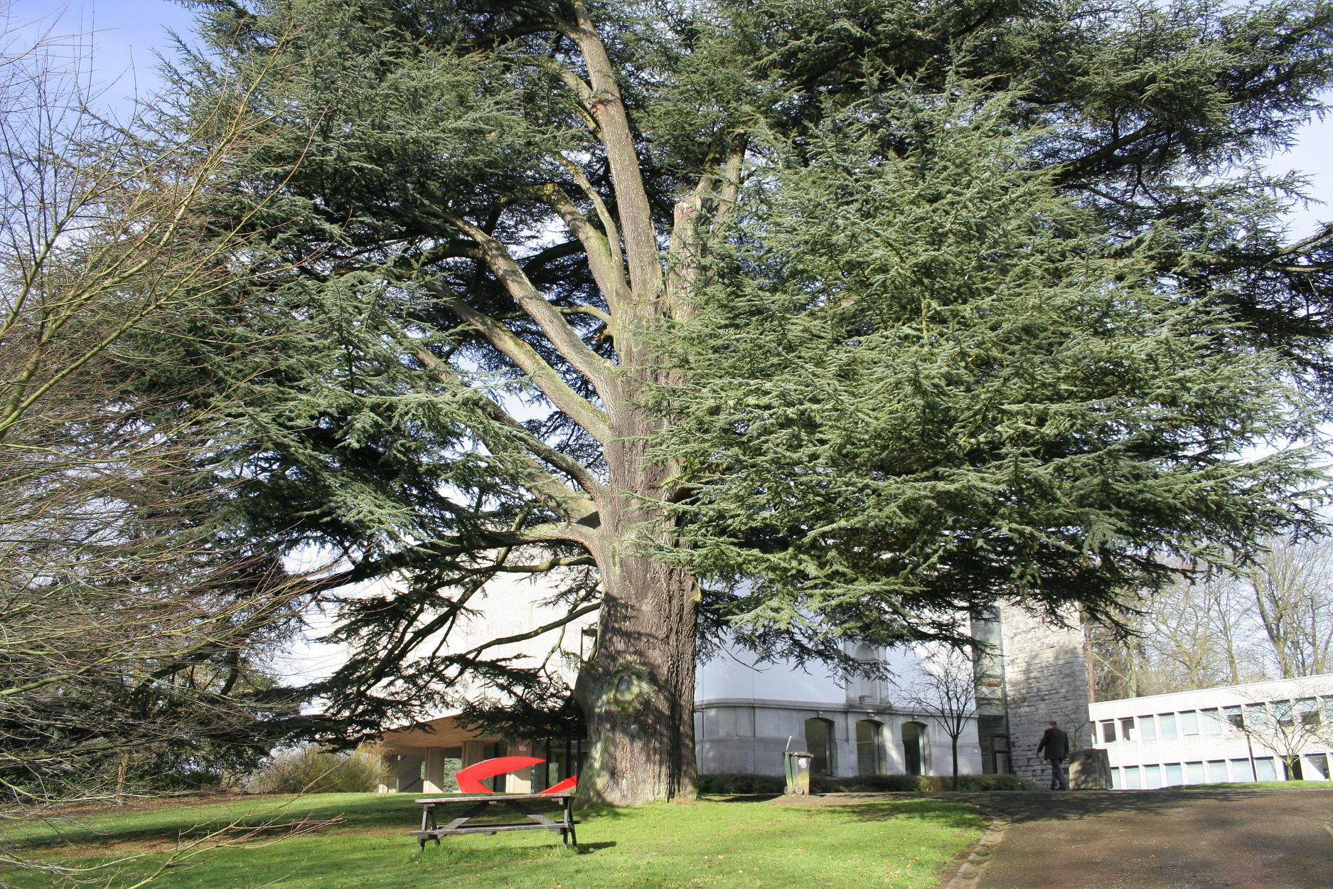 Lebanon Cedar .